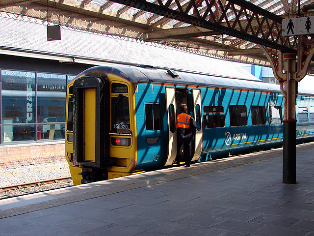 Awaiting departure from Aberystwyth An Arriva Trains Wales service for Shrewsbury and Birmingham awaiting departure from Aberystwyth. Shadows from the station canopy give an impression of a modified livery on the unit.